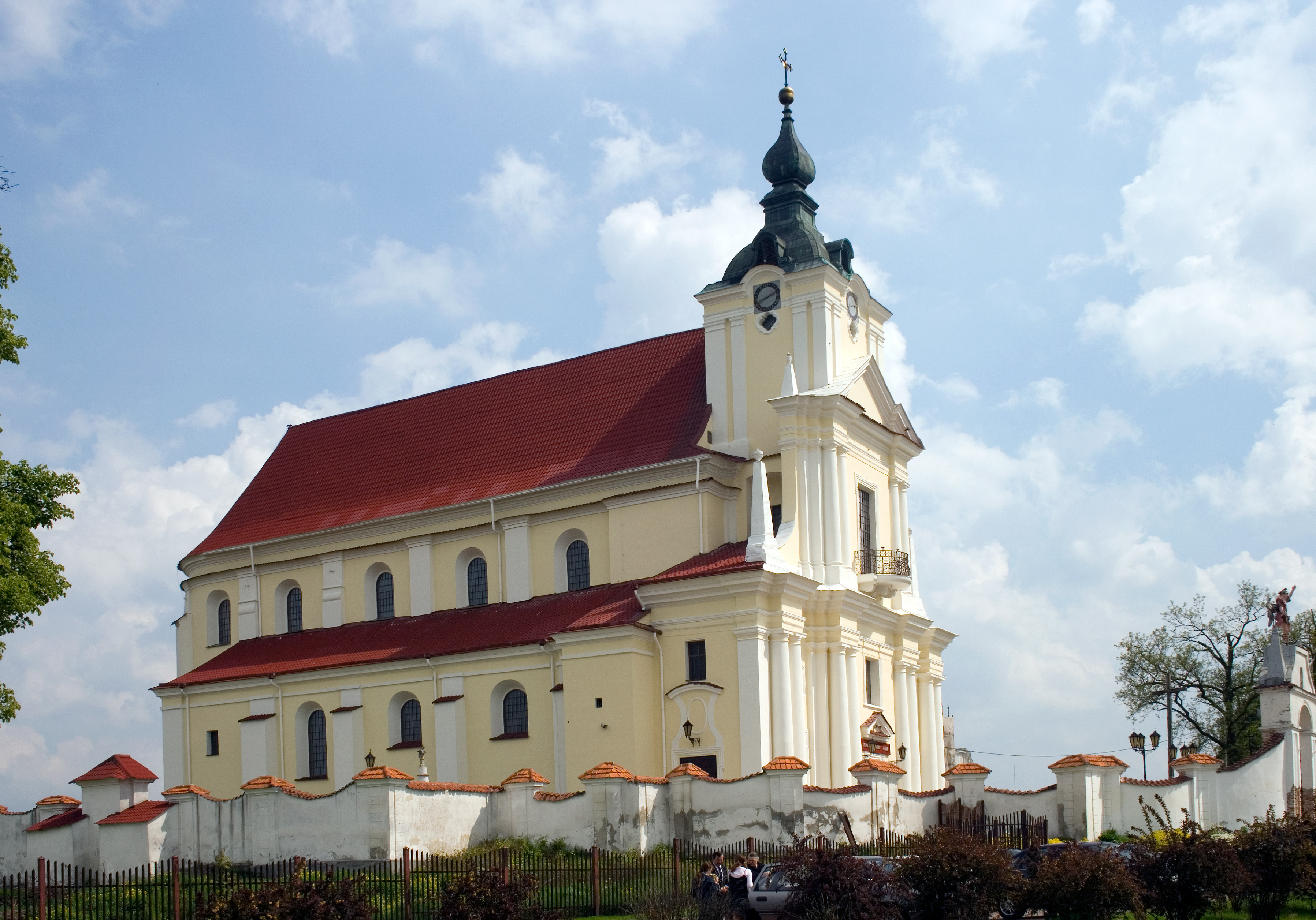 Catholic church in Siemiatycze